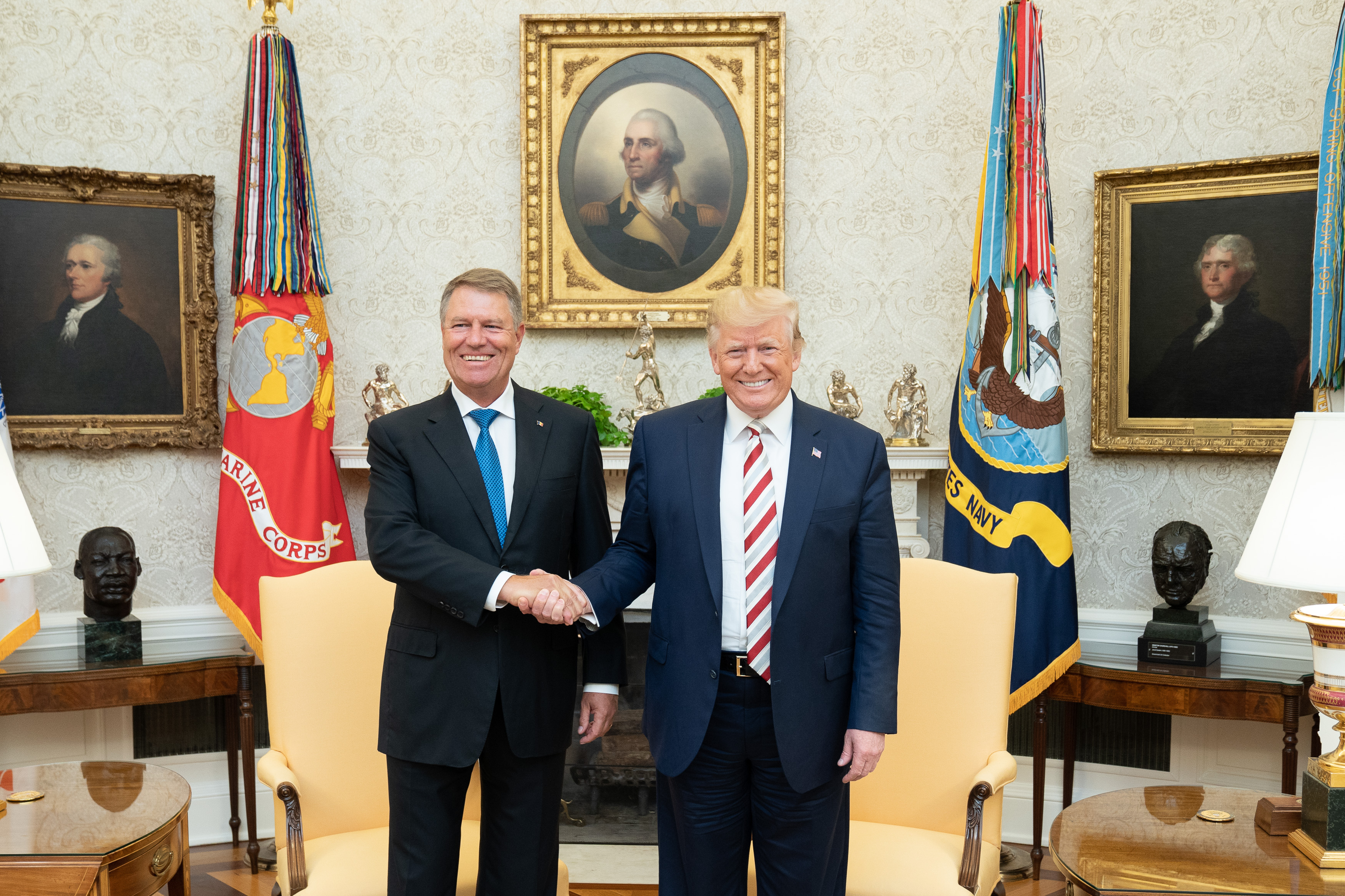 President Donald J. Trump welcomes Romanian President Klaus Iohannis Tuesday, Aug. 20, 2019, to the Oval Office of the White House. (Official White House Photo by Shealah Craighead)